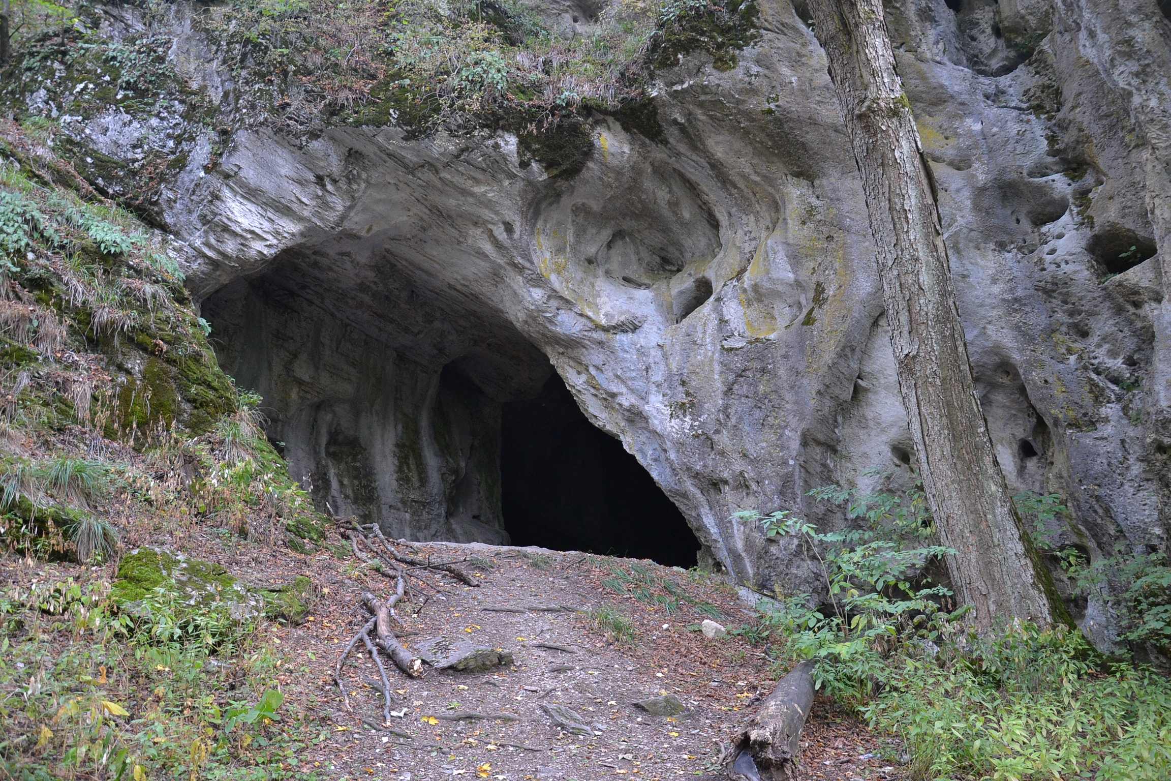 Balla Cave, Bükk mountains - Hungary